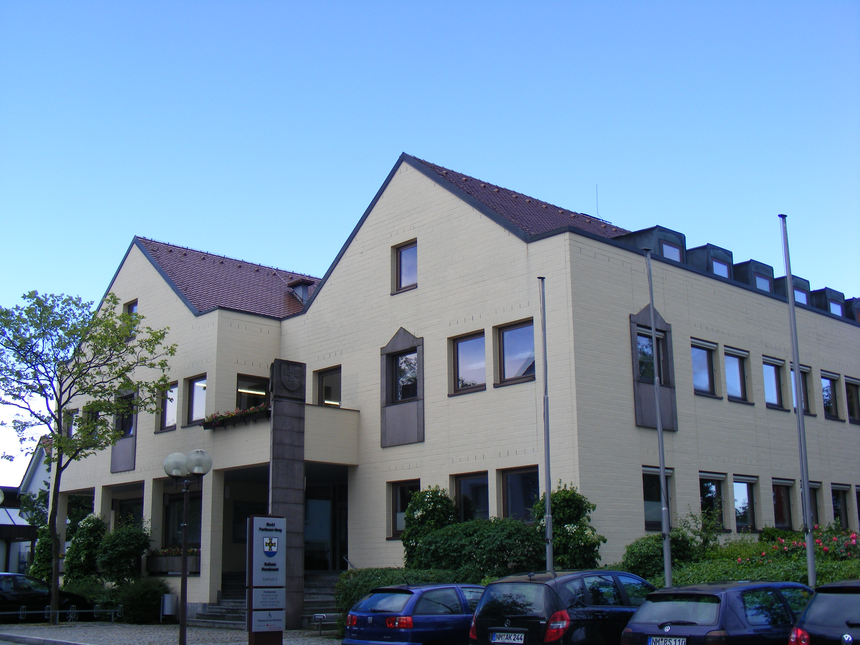 Townhall Postbauer-Heng (Germany)